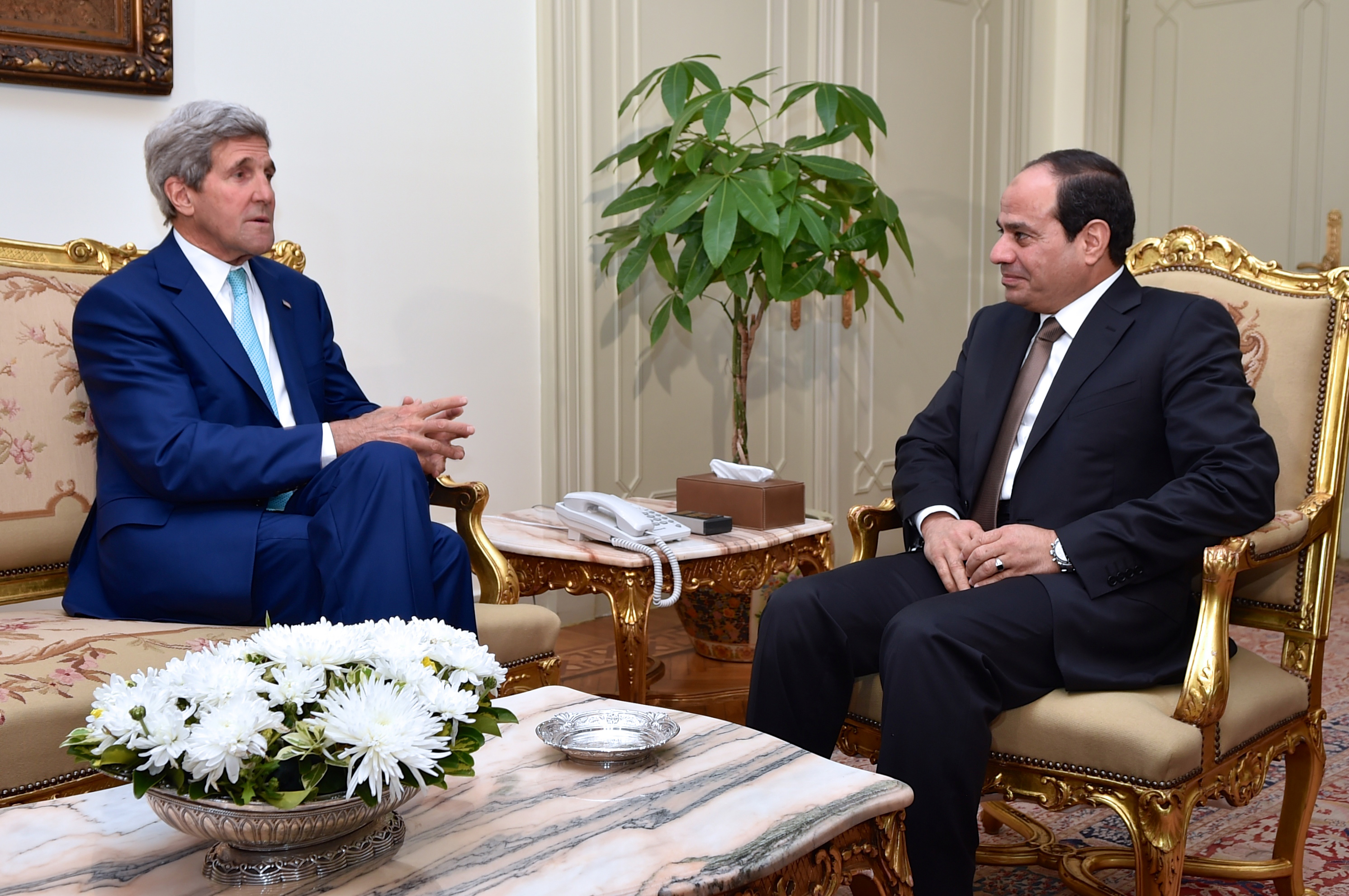 U.S. Secretary of State John Kerry chats with Egyptian President Abdel Fattah al-Sisi at the Presidential Palace in Cairo, Egypt, on July 22, 2014, to discuss a possible cease-fire between Israeli and Hamas forces fighting in the Gaza Strip.